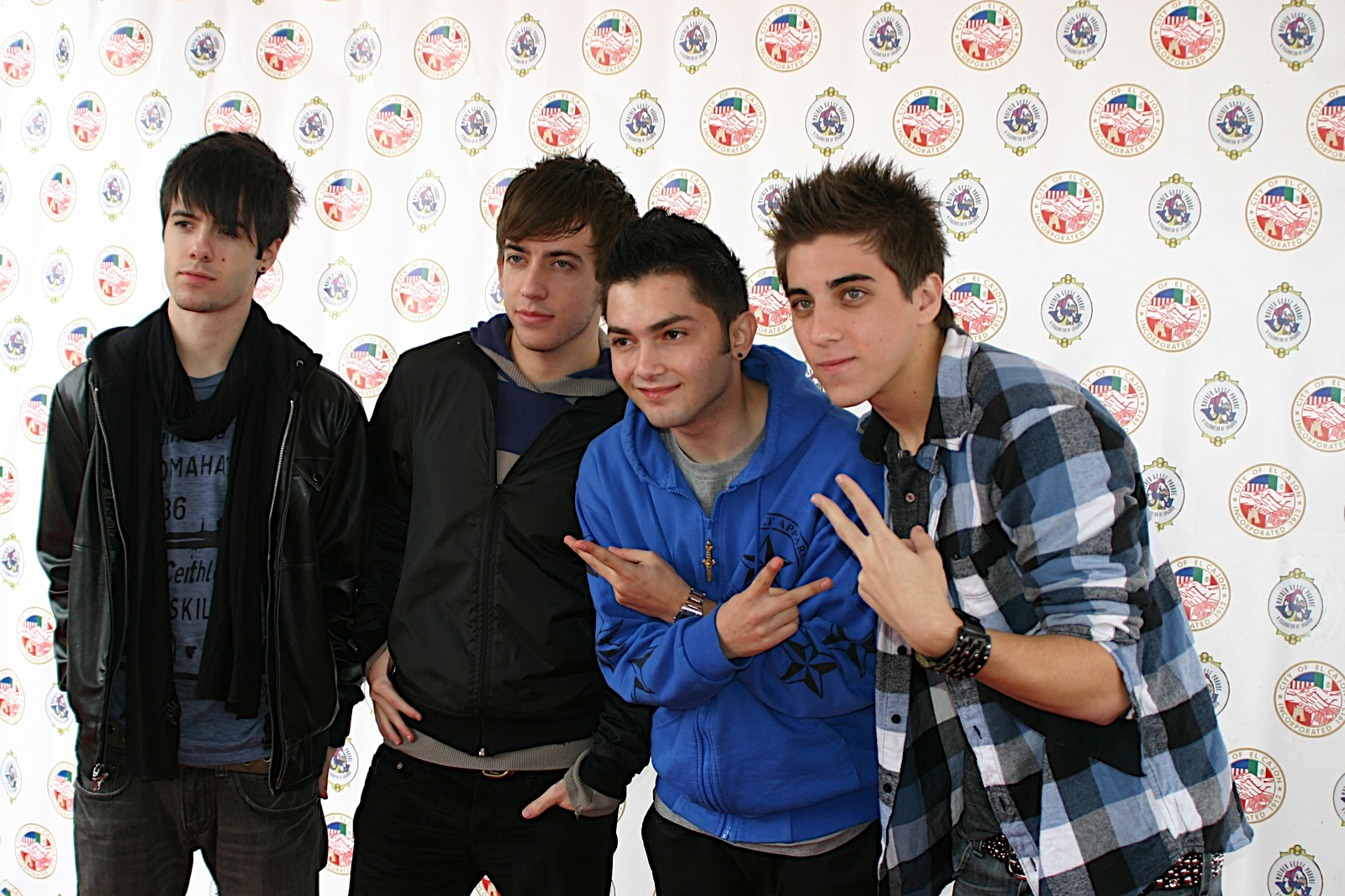 American boy band NLT ("Not Like Them") on the red carpet at the 62nd Annual Mother Goose Parade in San Diego County. All Rights Mother Goose Parade / Popular Press Media Group (PPMG) - .